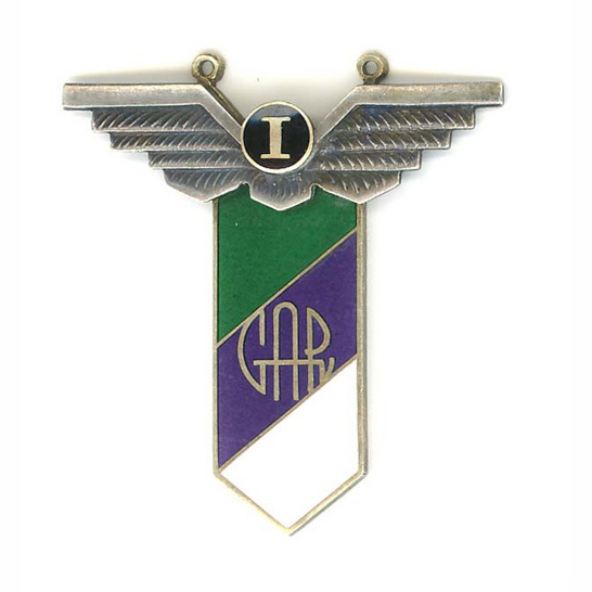 Grammar Old Estonian School Graduation Badge — GAG (Gustav Adolf Gymnasium), I issue